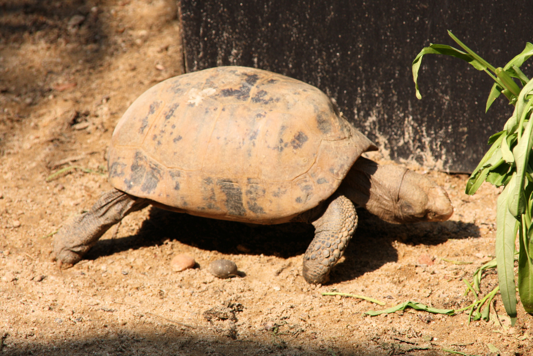 Elongated Tortoise (Indotestudo elongata) in Bangkok Zoo, Thailand.